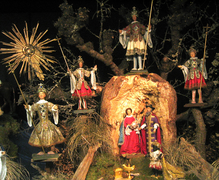 Gutenzell, Germany: Baroque Nativity Scene (1704), Adoration of the Magi (detail: holy family and messenger angels) The picture shows a detail from the largest of eight scenes on display in the former abbey church of Gutenzell.